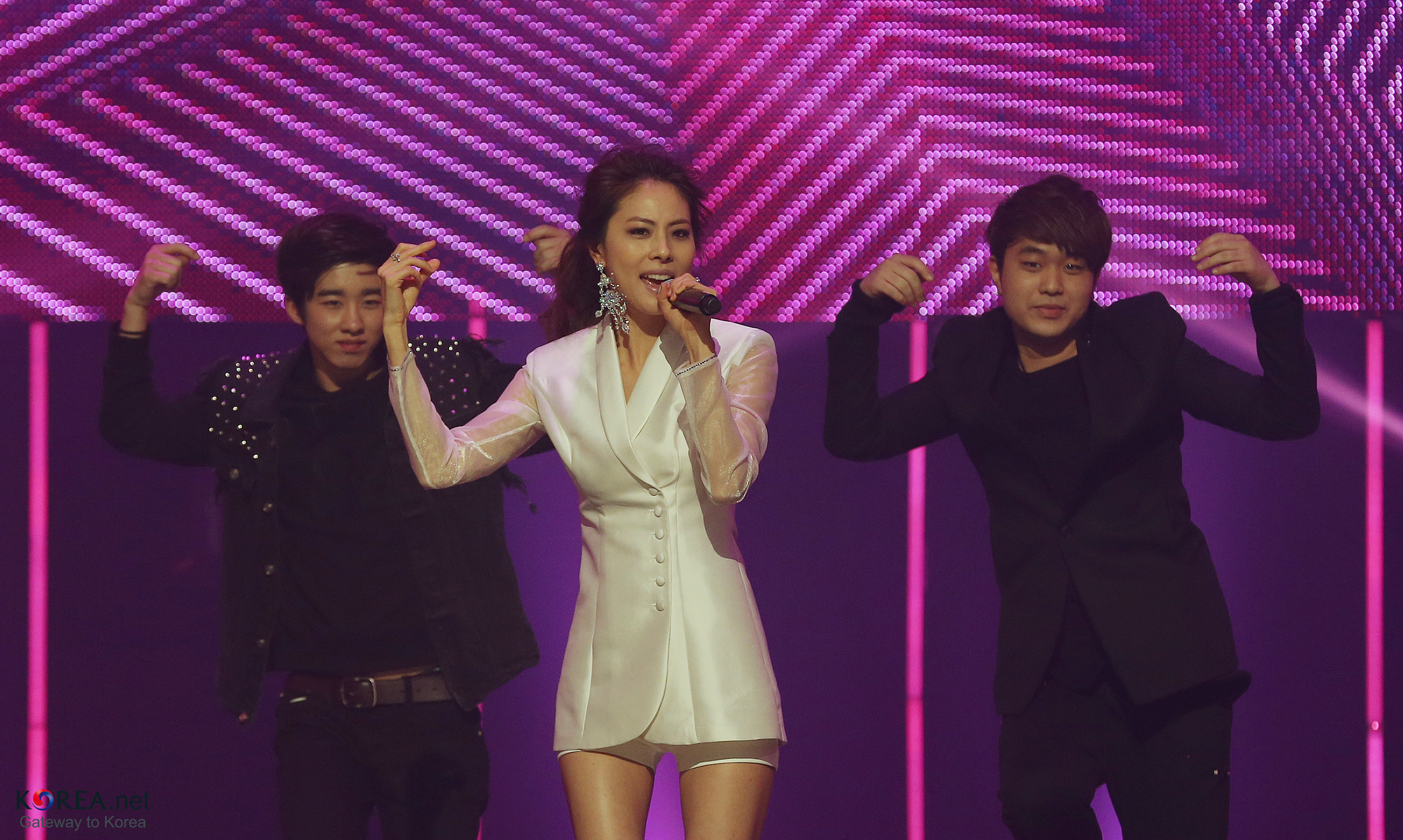 Mcountdown Park Jiyoon ‘Beep’ CJ E&M Center, Sangam-dong, Mapo-gu, Seoul 2014.03.06. Ministry of Culture, Sports and Tourism Korean Culture and Information Service ( Jeon Han 엠카운트다운 생방송 박지윤 ‘Beep’ 2014-03-06 CJ E&M 센터 문화체육관광부 해외문화홍보원 코리아넷 전한